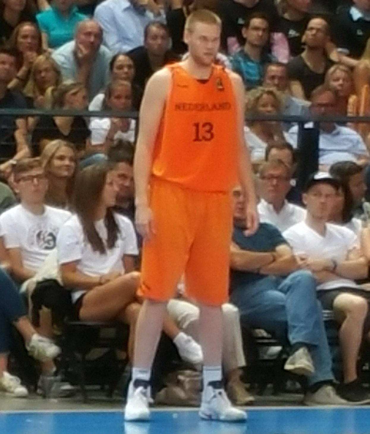 Roeland Schaftenaar during EuroBasket 2017 qualification